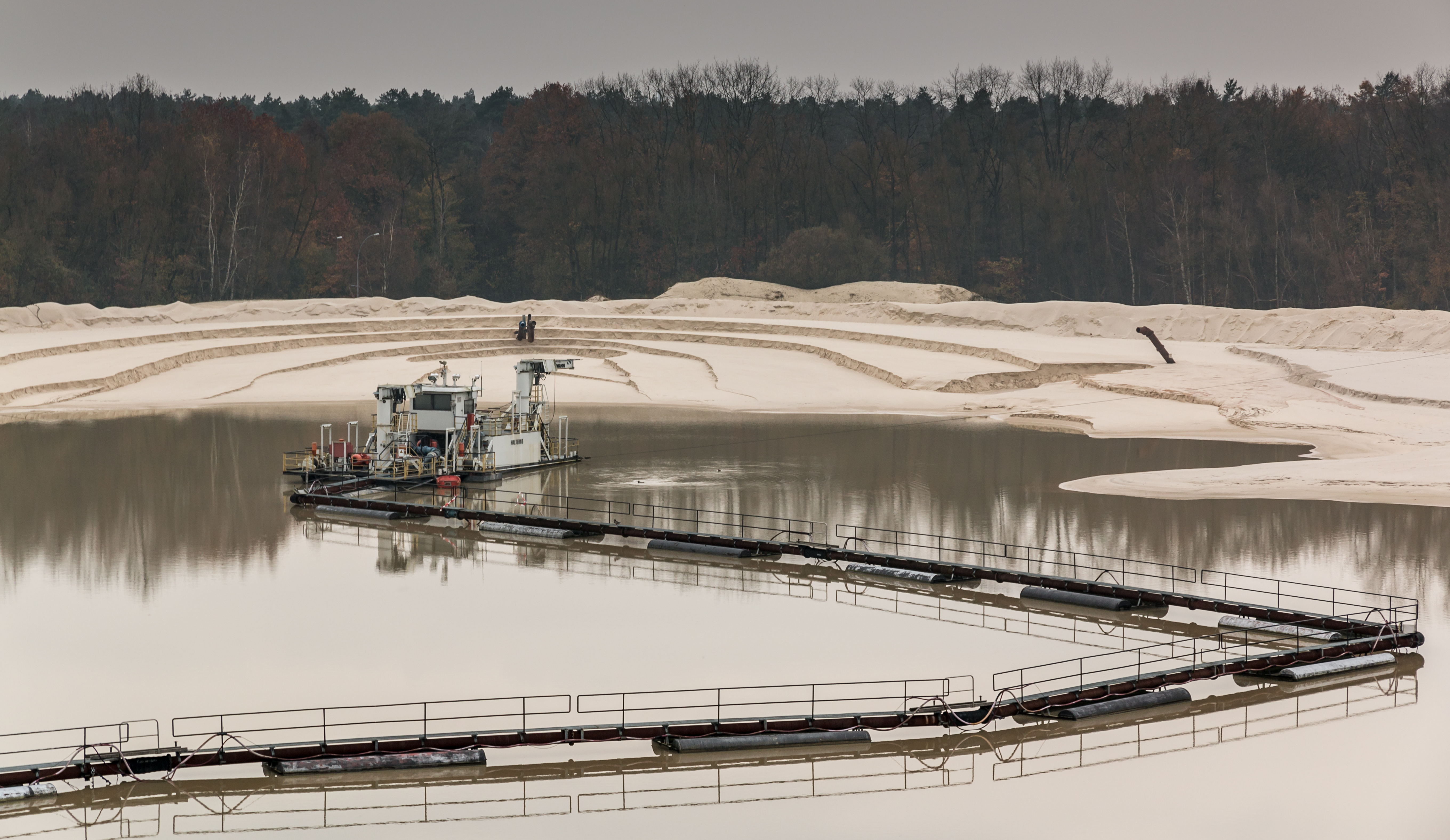 Suction dredger (at Silbersee IV), Quarzwerke, Sythen, Haltern am See, North Rhine-Westphalia, Germany